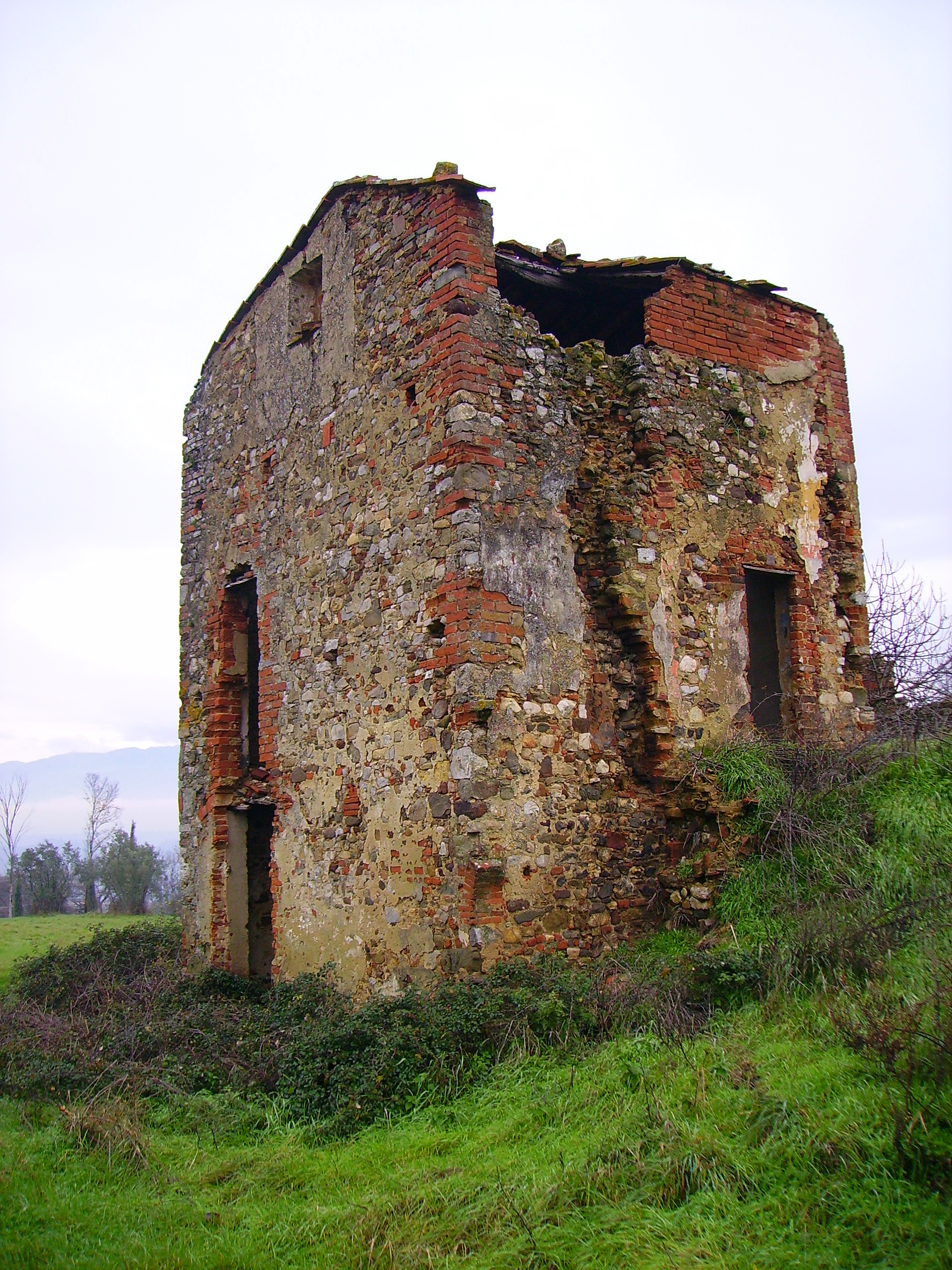 Il Guardingo is a ruined lombard watchtower on Montevarchi's hills just outside the city downtown